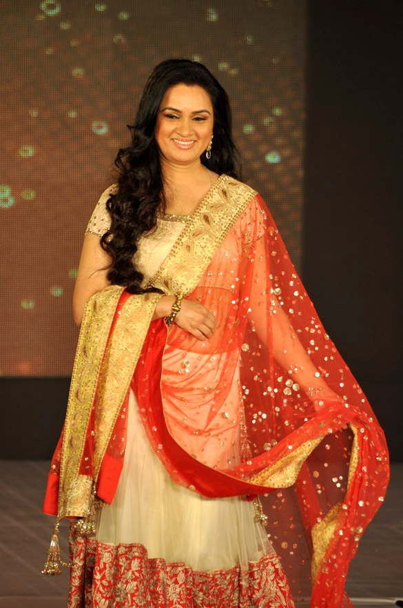 Padmini Kolhapure at Manish Malhotra - Lilavati Save & Empower Girl Child show.